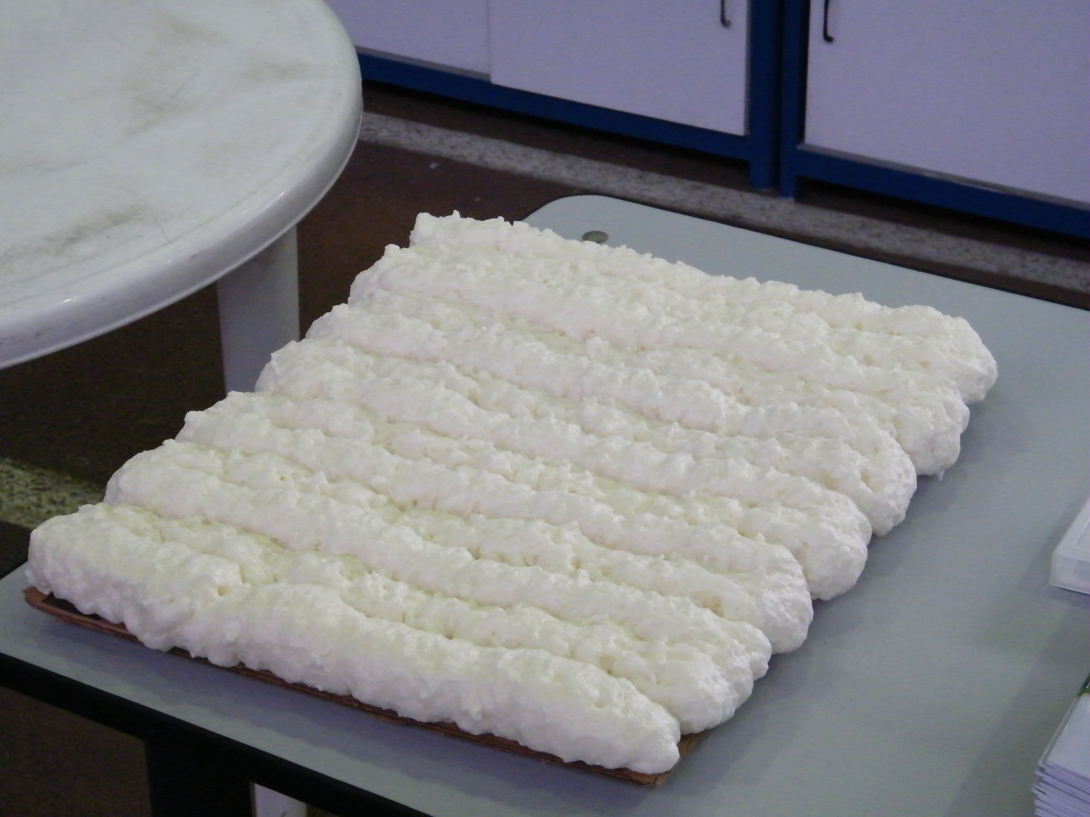 Монтажная пена демонстрация на выставке